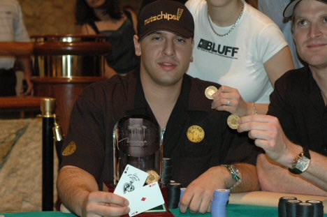 Michael Mizrachi in World Poker Tour / PPT / Mirage Poker Showdown 2005.